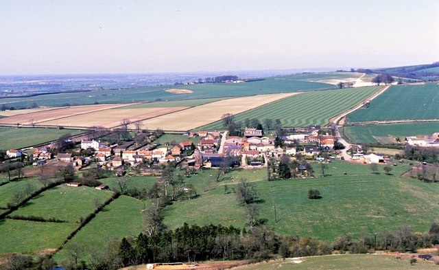 Millington, East Riding of Yorkshire, England.The village of Millington seen from the scarp edge, along which runs the Yorkshire Wolds Way.